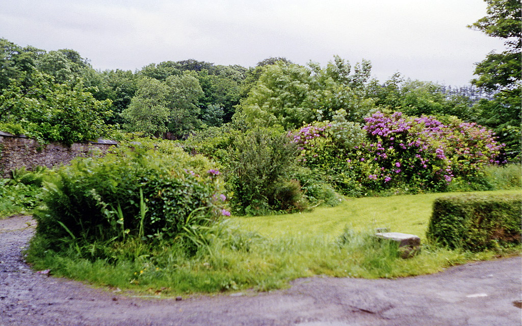 Bruckless Station (site), View westward, towards Killybegs; ex-County Donegal Joint line, Londonderry - Stranorlar - Donegal - Killbegs, closed 1/1/60.